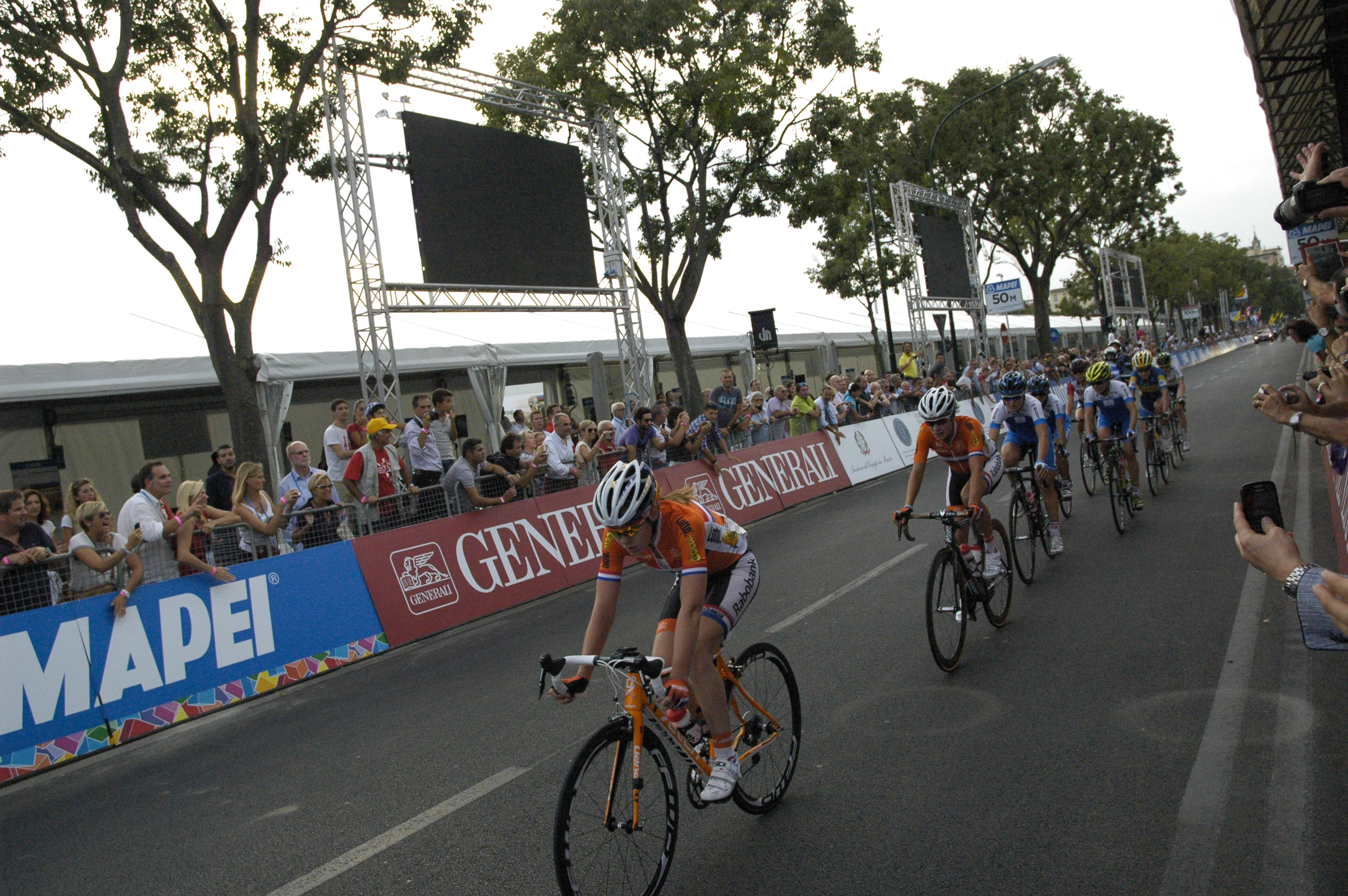 2013 UCI Road World Championships – Women's road race Anna van der Breggen (front) Marianne Vos (2nd rider)